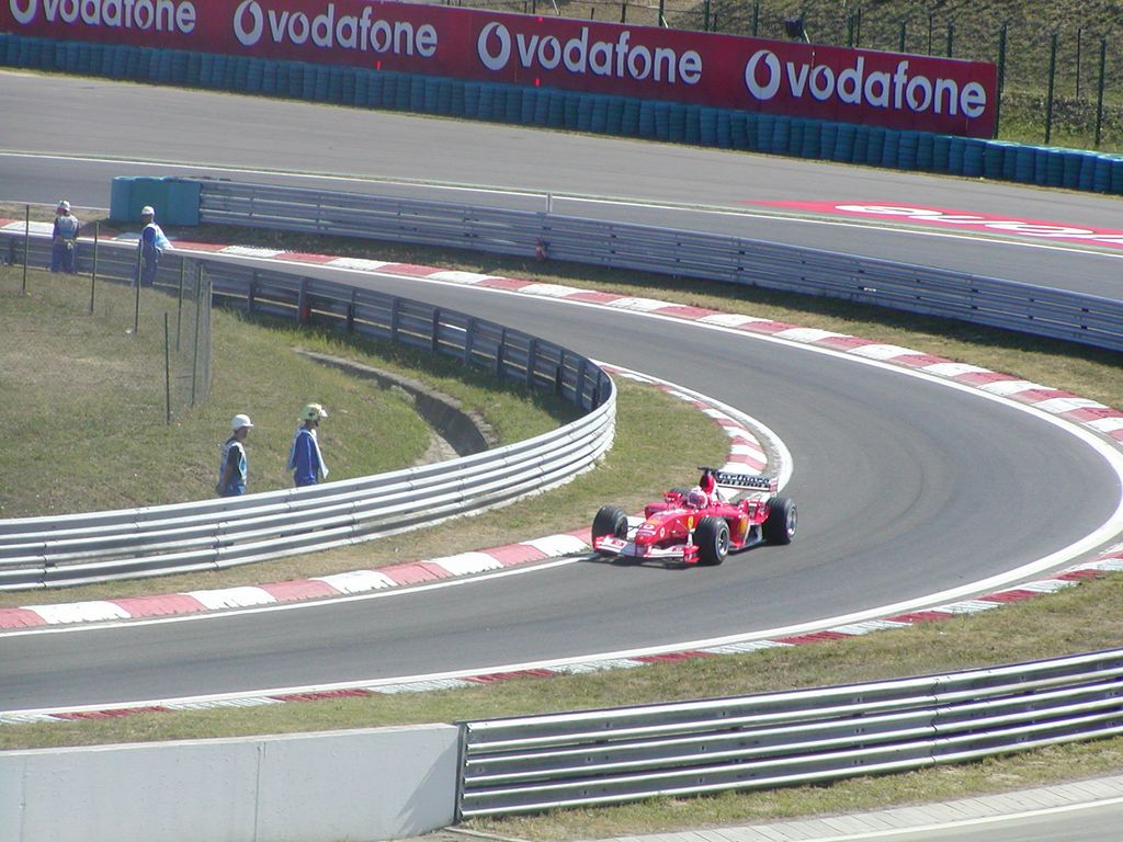 Rubens Barrichello (Ferrari) entering pits at the 2003 Hungarian Grand Prix.